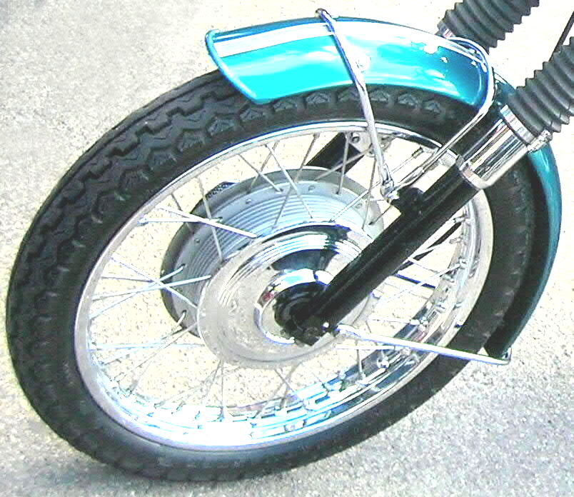 Dunlop TT100 road tyre developed after the first TT race 100mph lap by a production-based machine in 1969